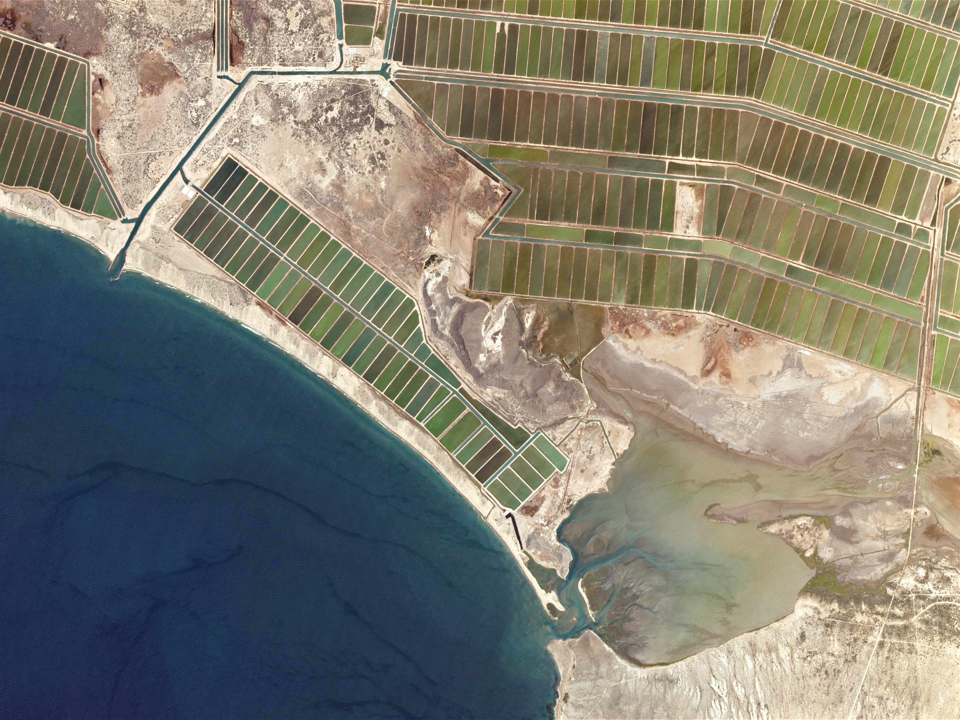 Shrimp Ponds, Mexico June 17, 2016 Rows and rows of artificial shrimp ponds make up one of many large aquaculture farms along the Gulf of California’s Sonoran coastline.